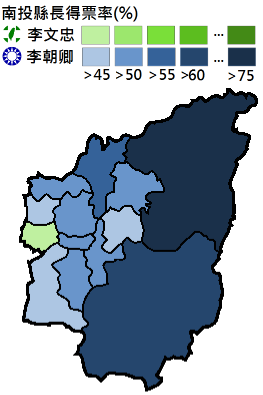 Nantou magistrate election 2009